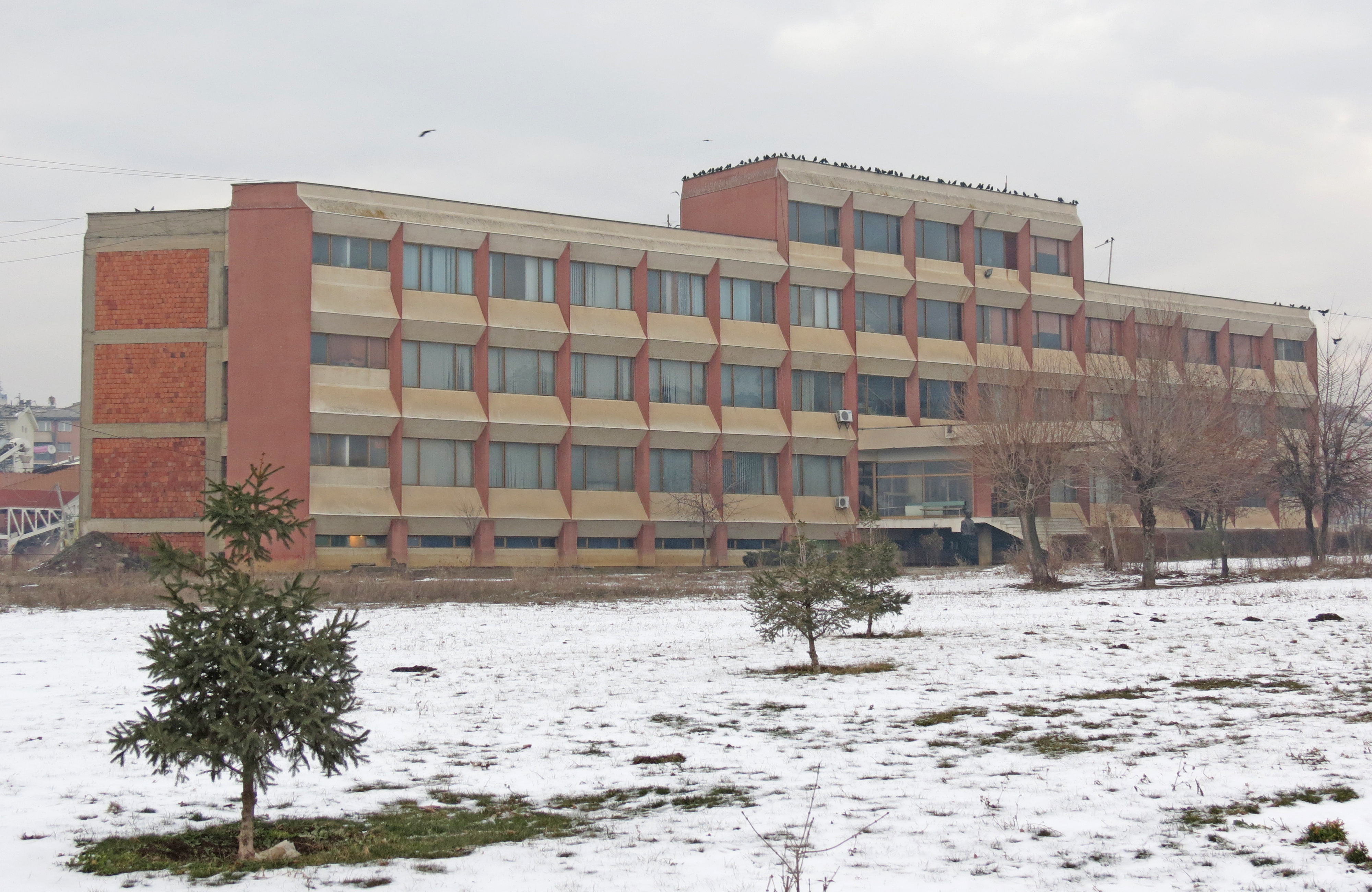 University of Pristina in Kosovo: Faculty of Medecine - Institut A